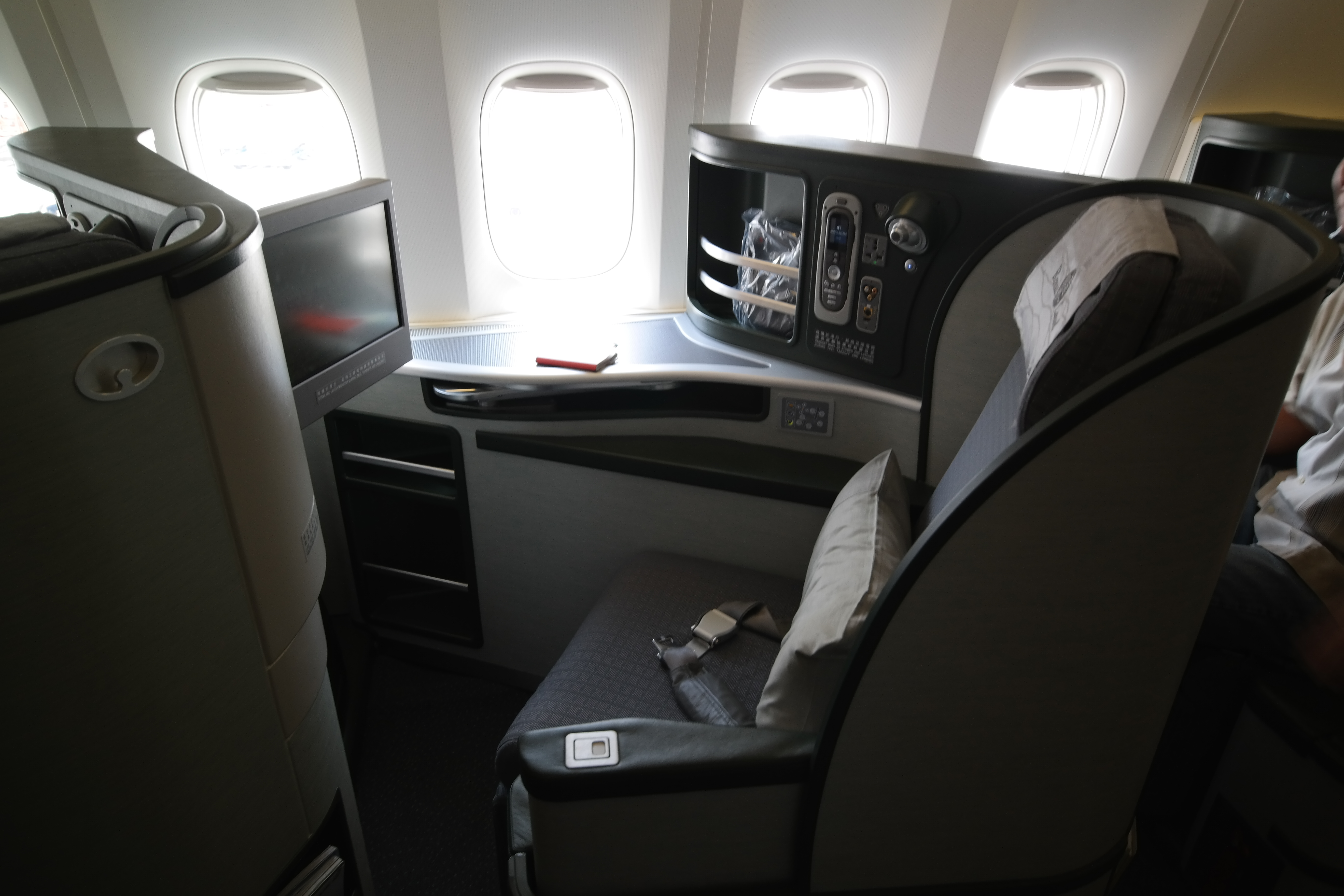 EVA Air's BR226 from Singapore to Taipei in Royal Laurel class in a 1-2-1 seating configuration. Full flat bed. Aircraft registration B-16715 Boeing 777-35E(ER)